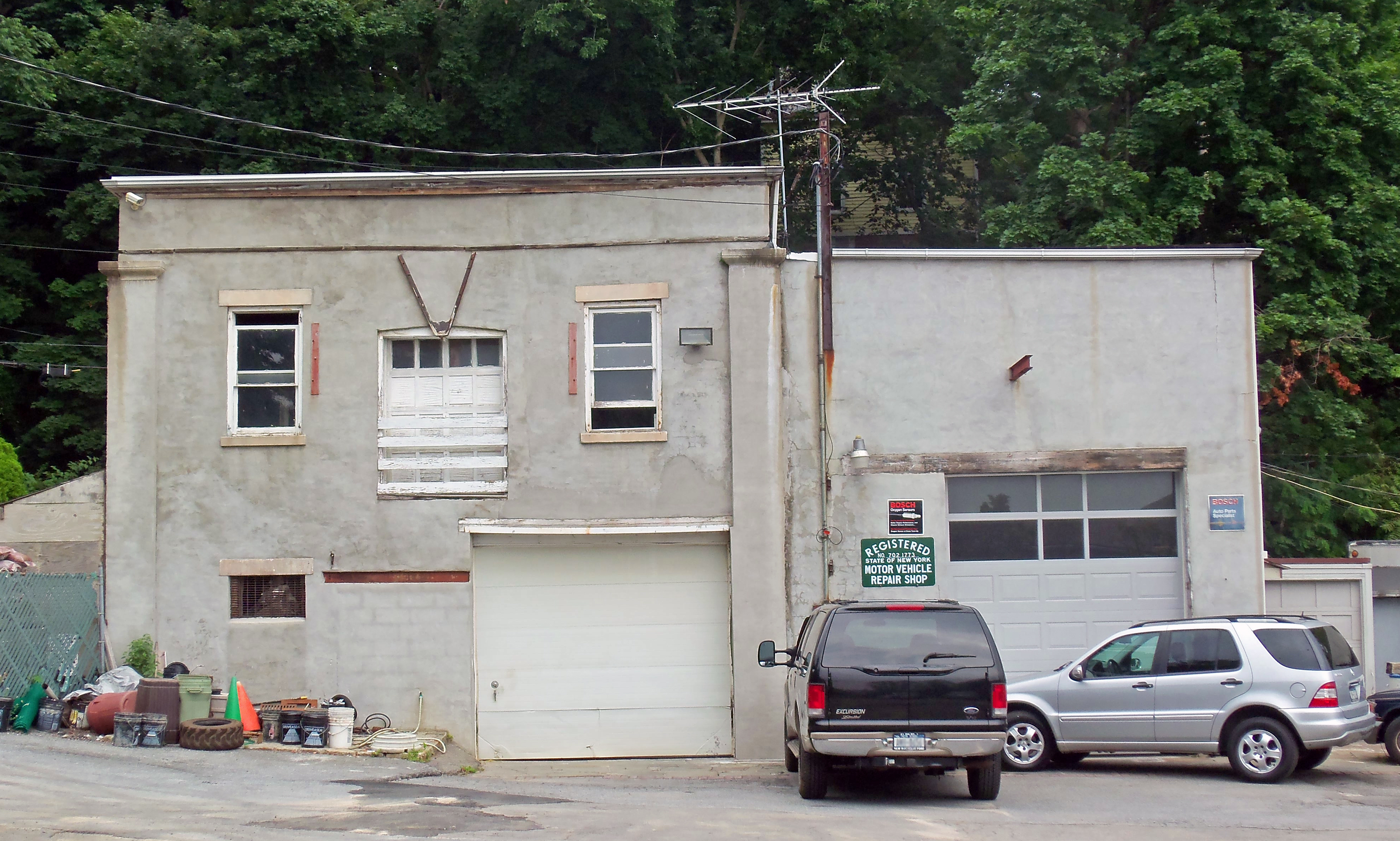 1836 office building for Benjamin Brandreth at former Brandreth Pill Factory complex, Ossining, NY, USA. The main block, possibly designed by Calvin Pollard in 1836, is the oldest building in the compound.